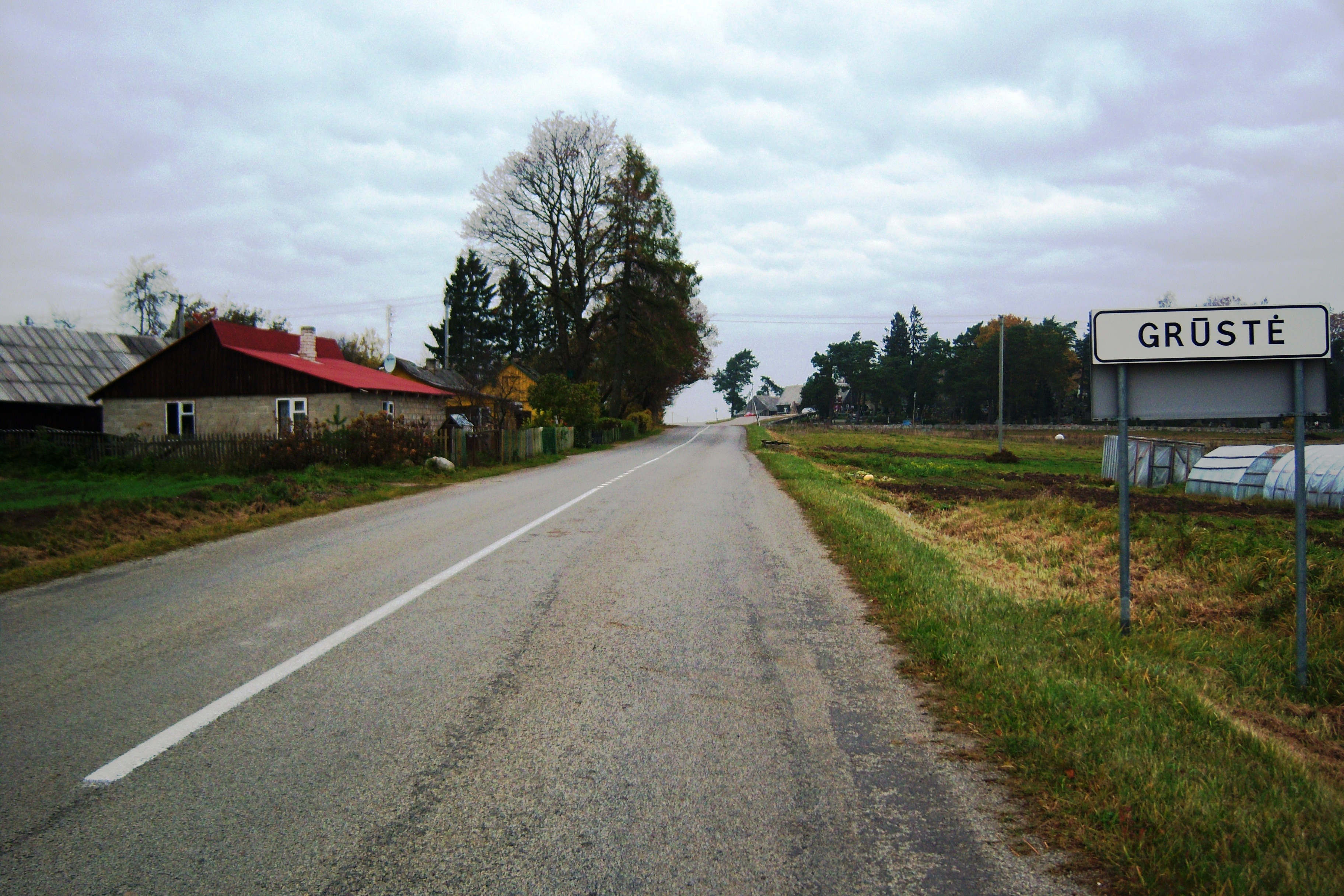 Grūstė, Mažeikiai district, Lithuania